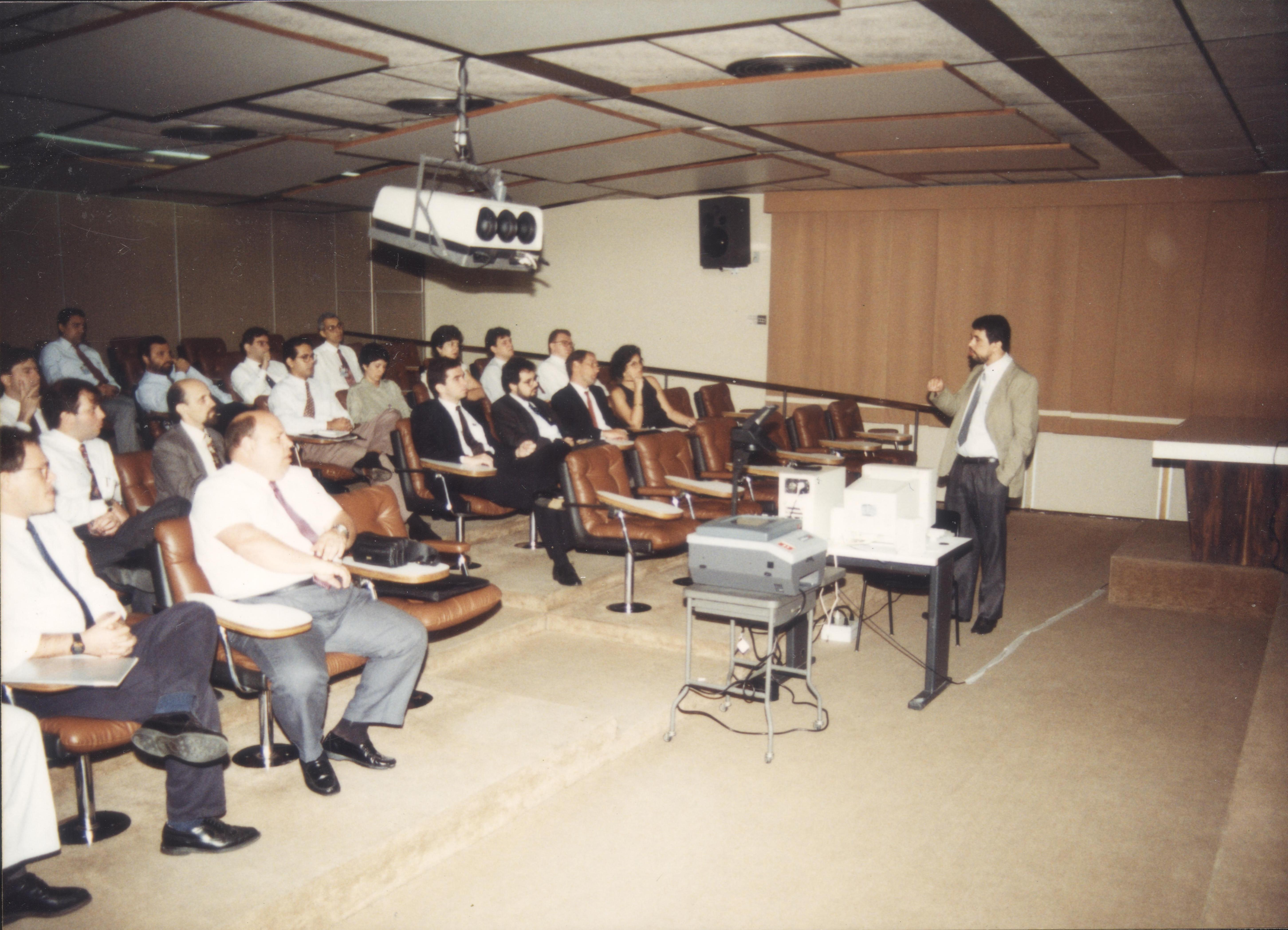 auditorio Irene Melo